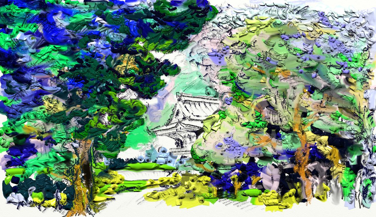 Painting of a temple using ArtRage, showing strokes done using different pen types.